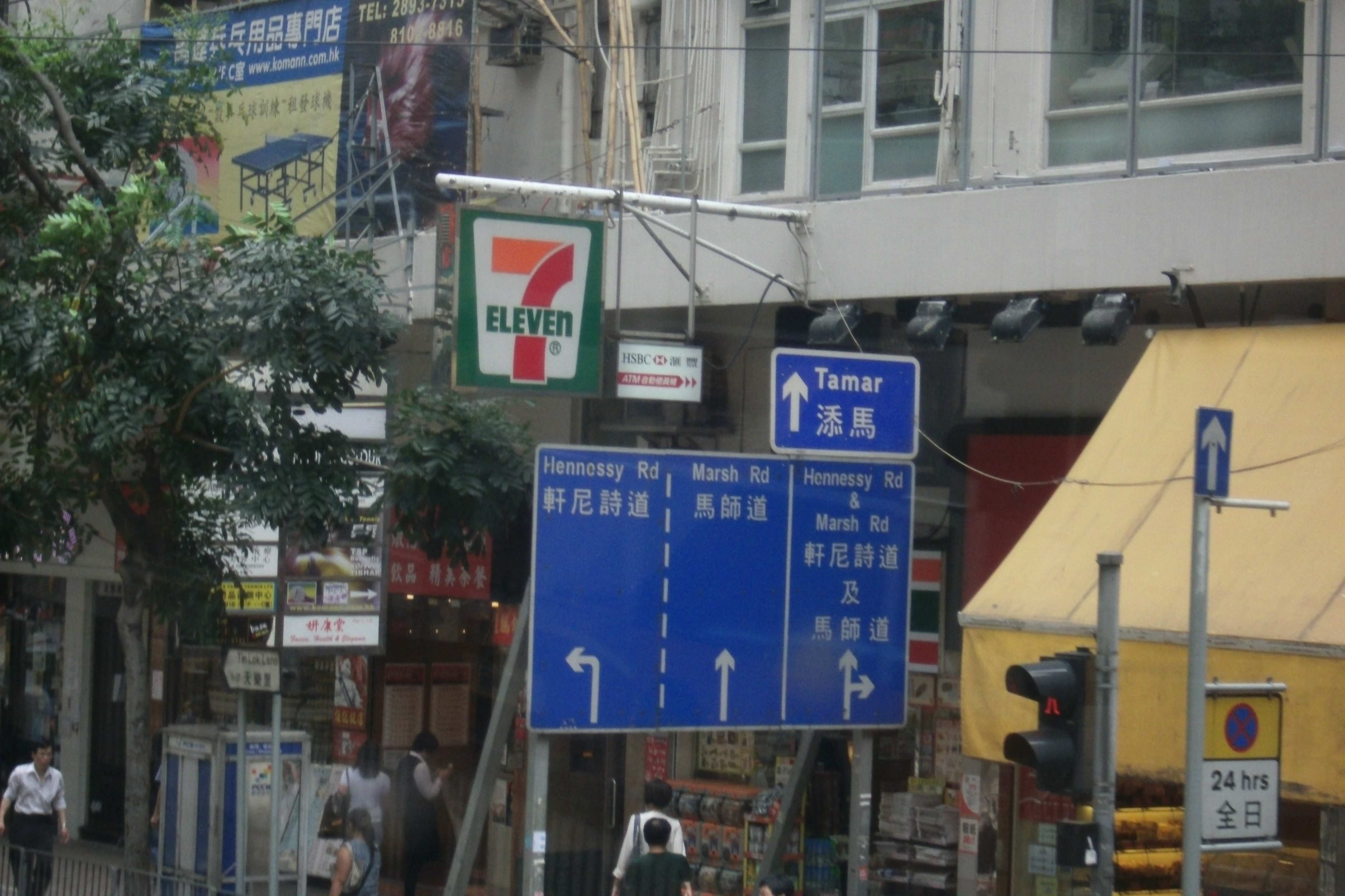 Road sign to Tamar